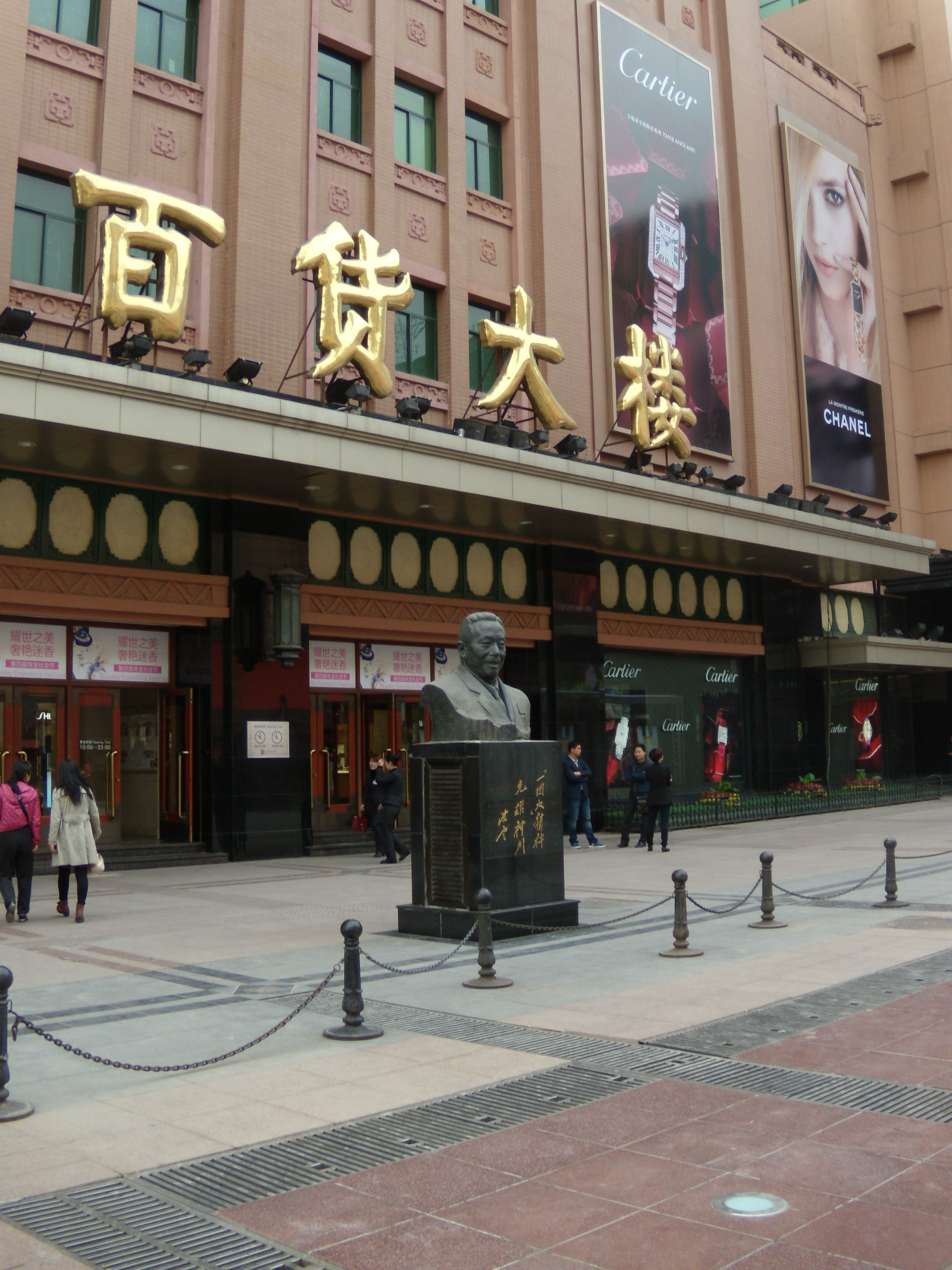 Wangfujing, Department store, entrance